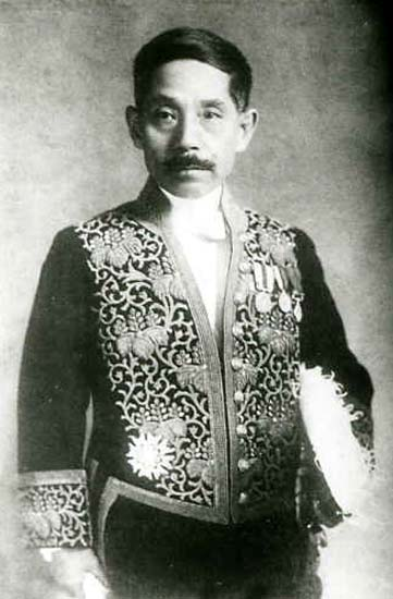 Prof. Dr. KUBO Inokichi (1873-1939), pioneer of Otorhinolaryngology and renowned poet.